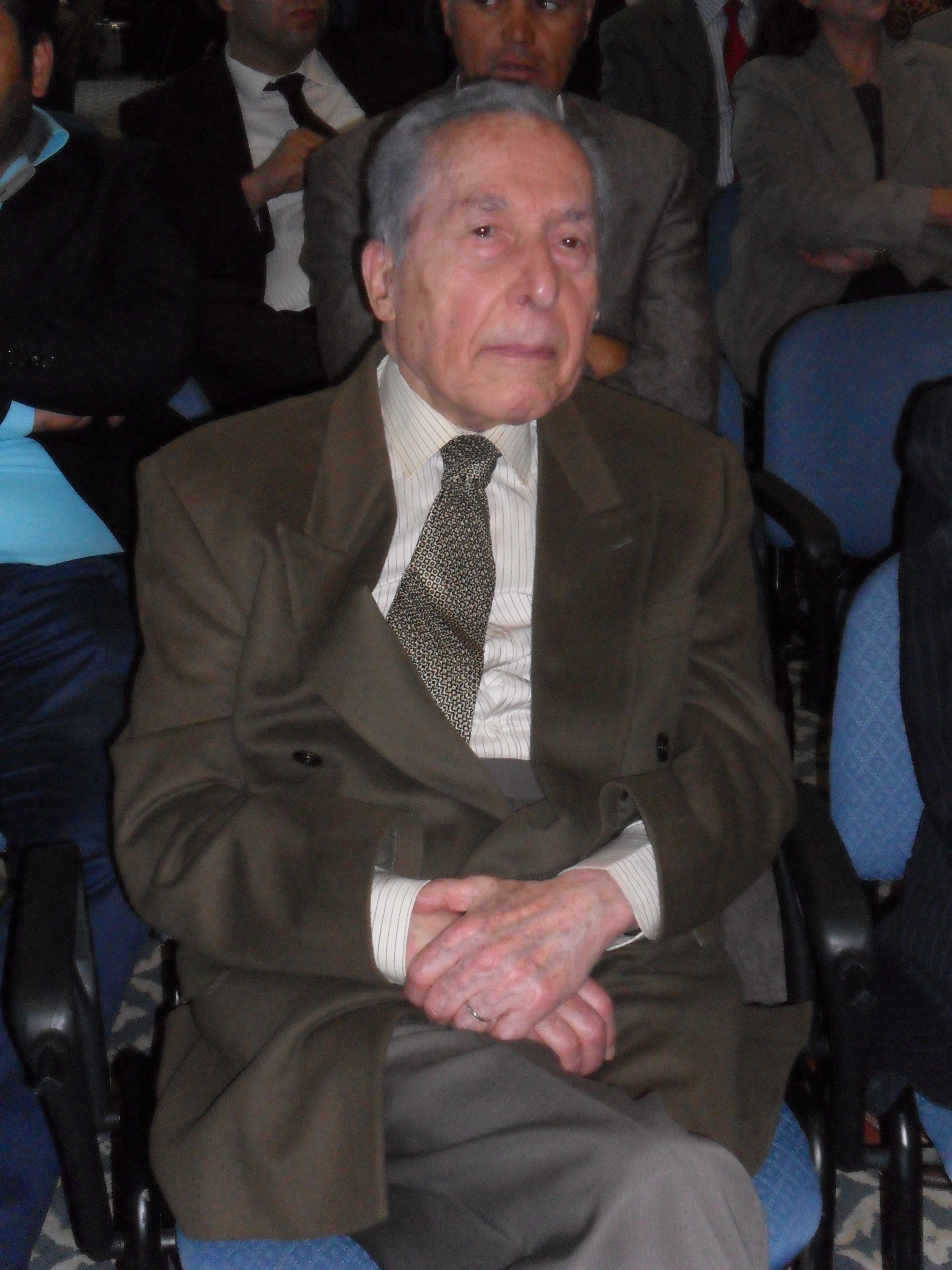 Chedli Klibi (1925- ), Tunisian politician and former secretary general of the Arab League